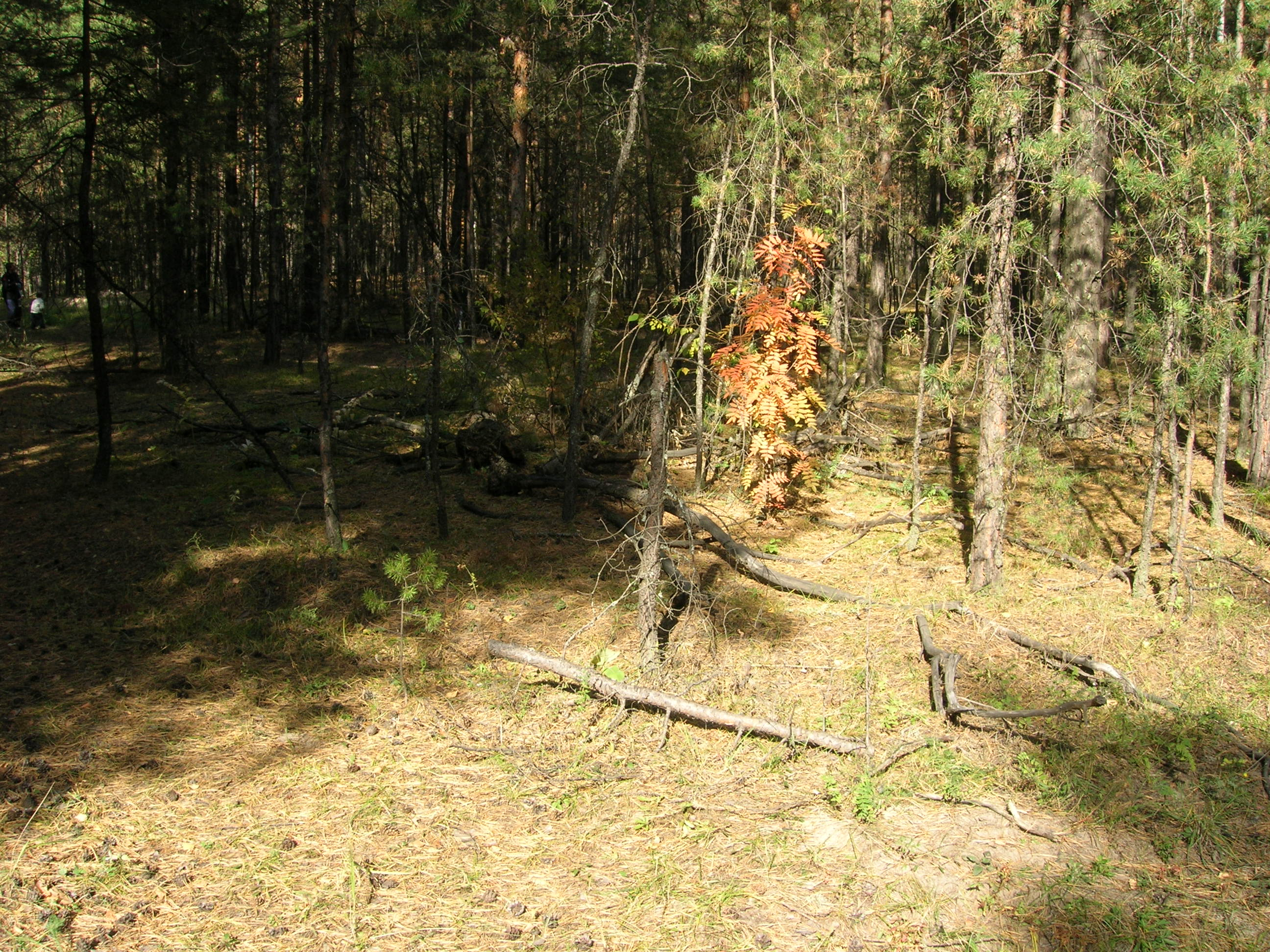 Scots Pines (Pinus sylvestris) in Barnaul Ribbon Forest near Barnaul.